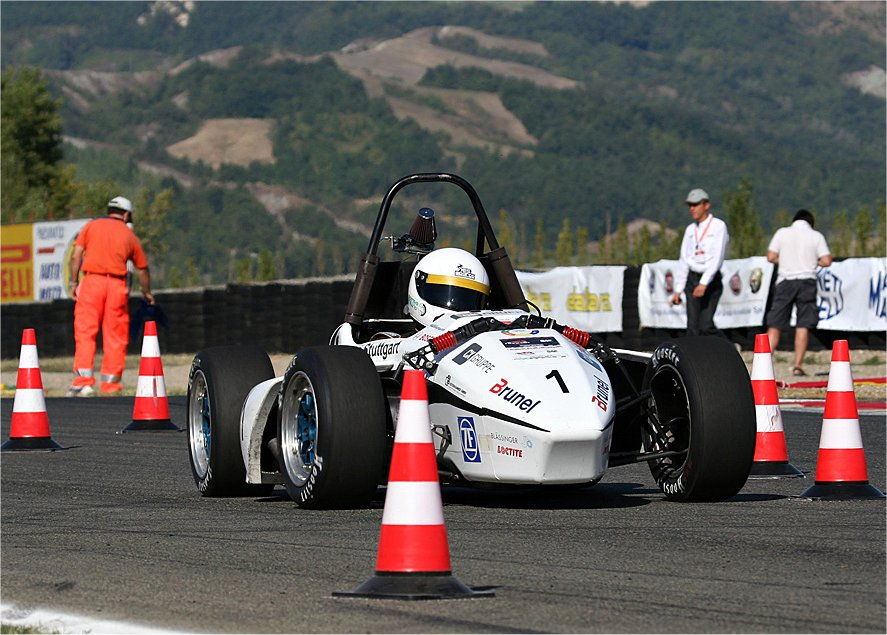 Rennteam Uni Stuttgart during FSAE Italy 2009's endurance event